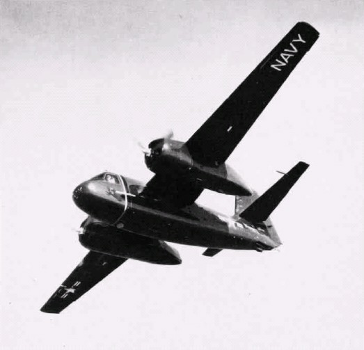 An early U.S. Navy TF-1 Trader COD aircraft. Until 1956 U.S. Navy planes were painted glossy sea blue. The Trader was redesignated C-1A in 1962.